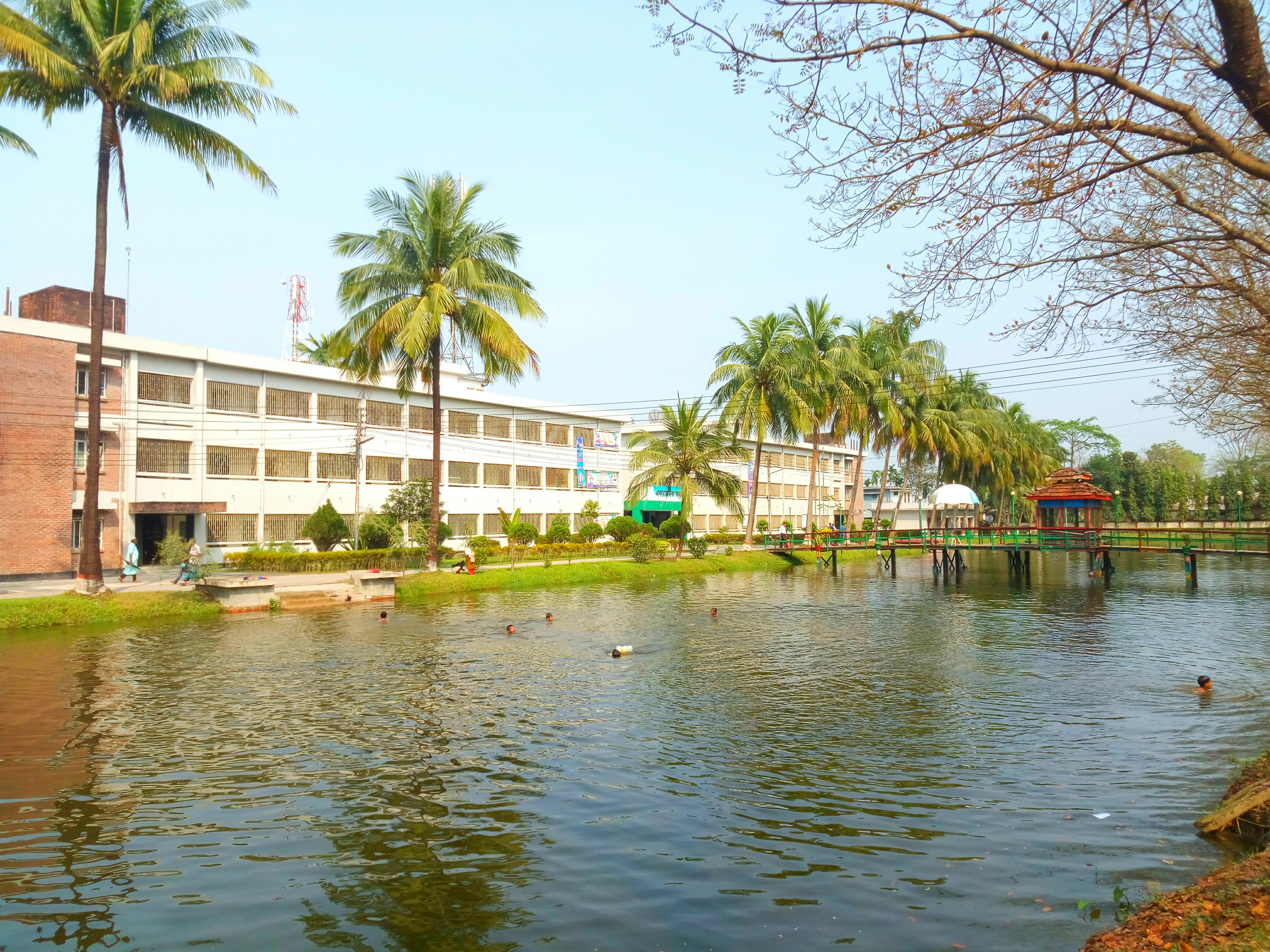 This is the front view of PSTU academic building.The Photo was Taken by G.M. Jamil Hossain Sujon